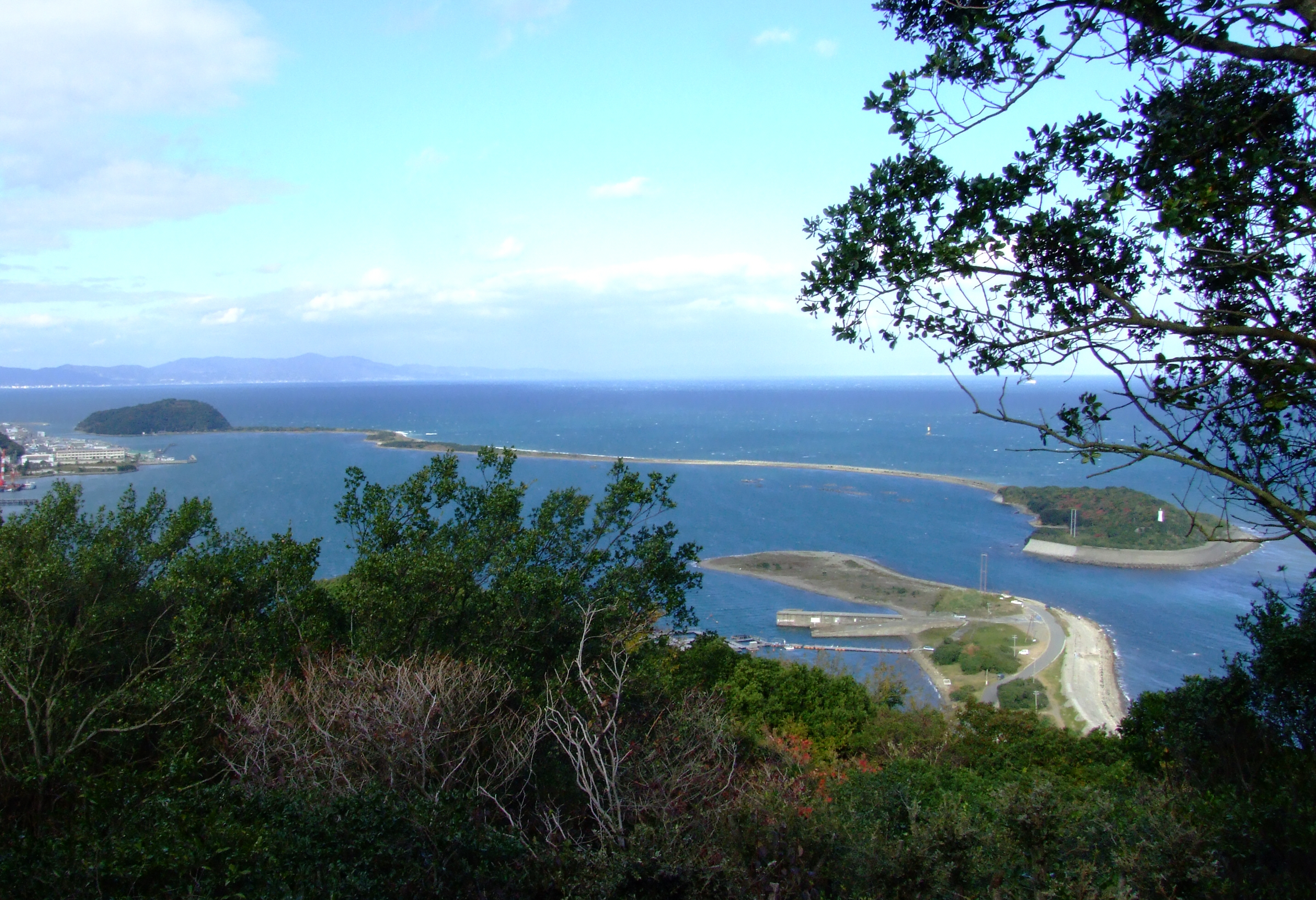 the whole view of Narugashima Island from the Oishi Park. in Hyogo Pref., Japan.